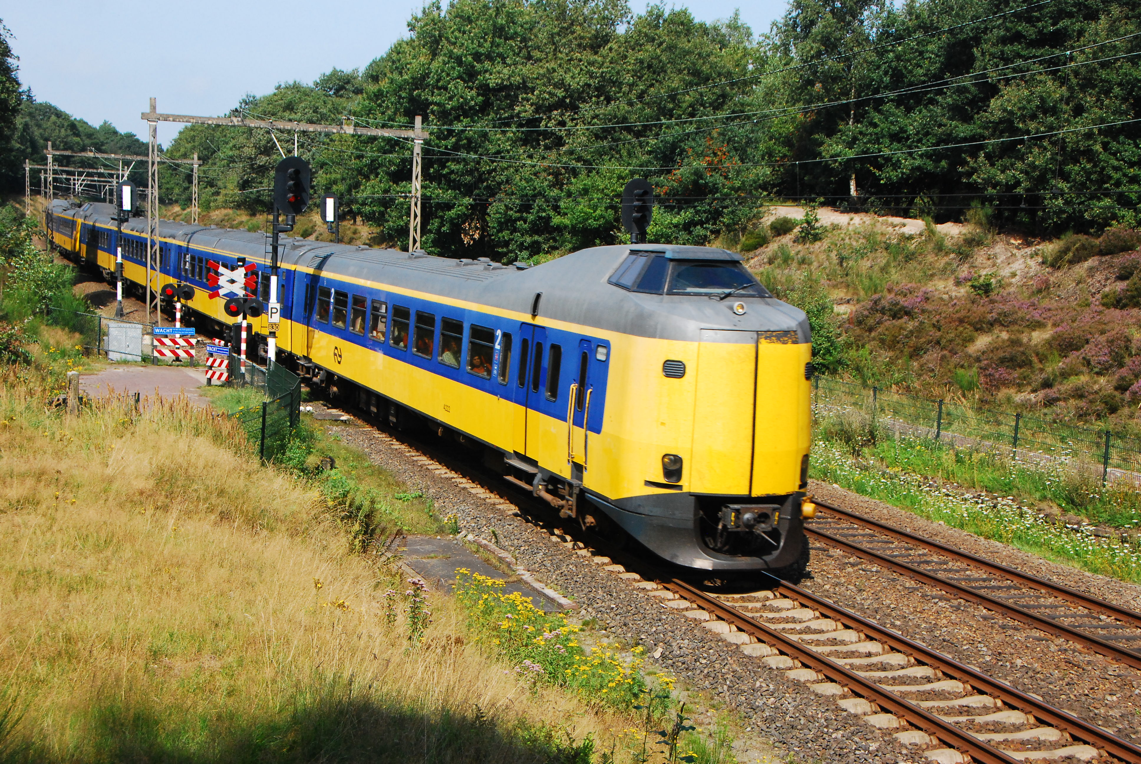 ICM4 Koploper crosses Asselsepad near Apeldoorn